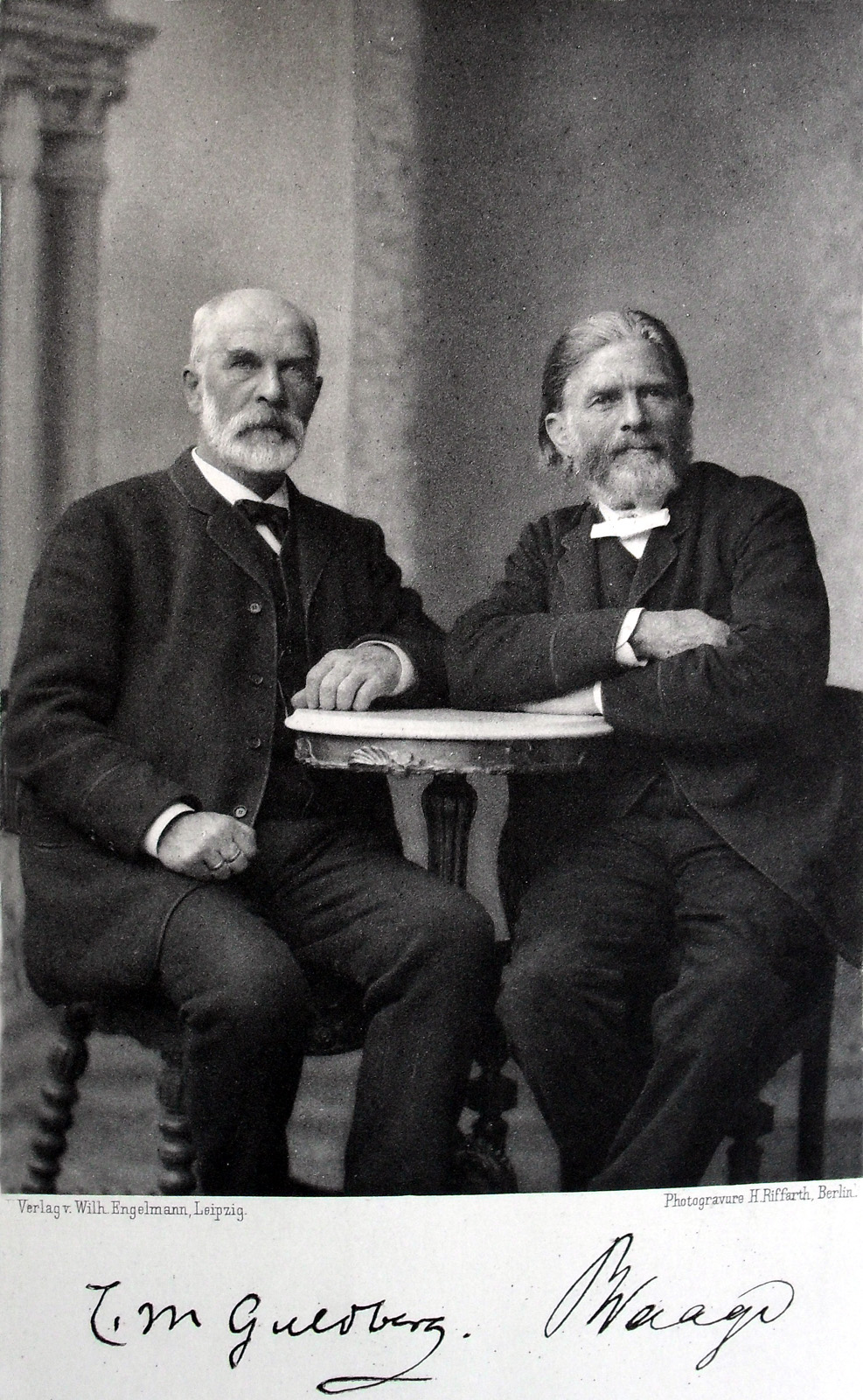 Cato Maximilian Guldberg (left) and Peter Waage